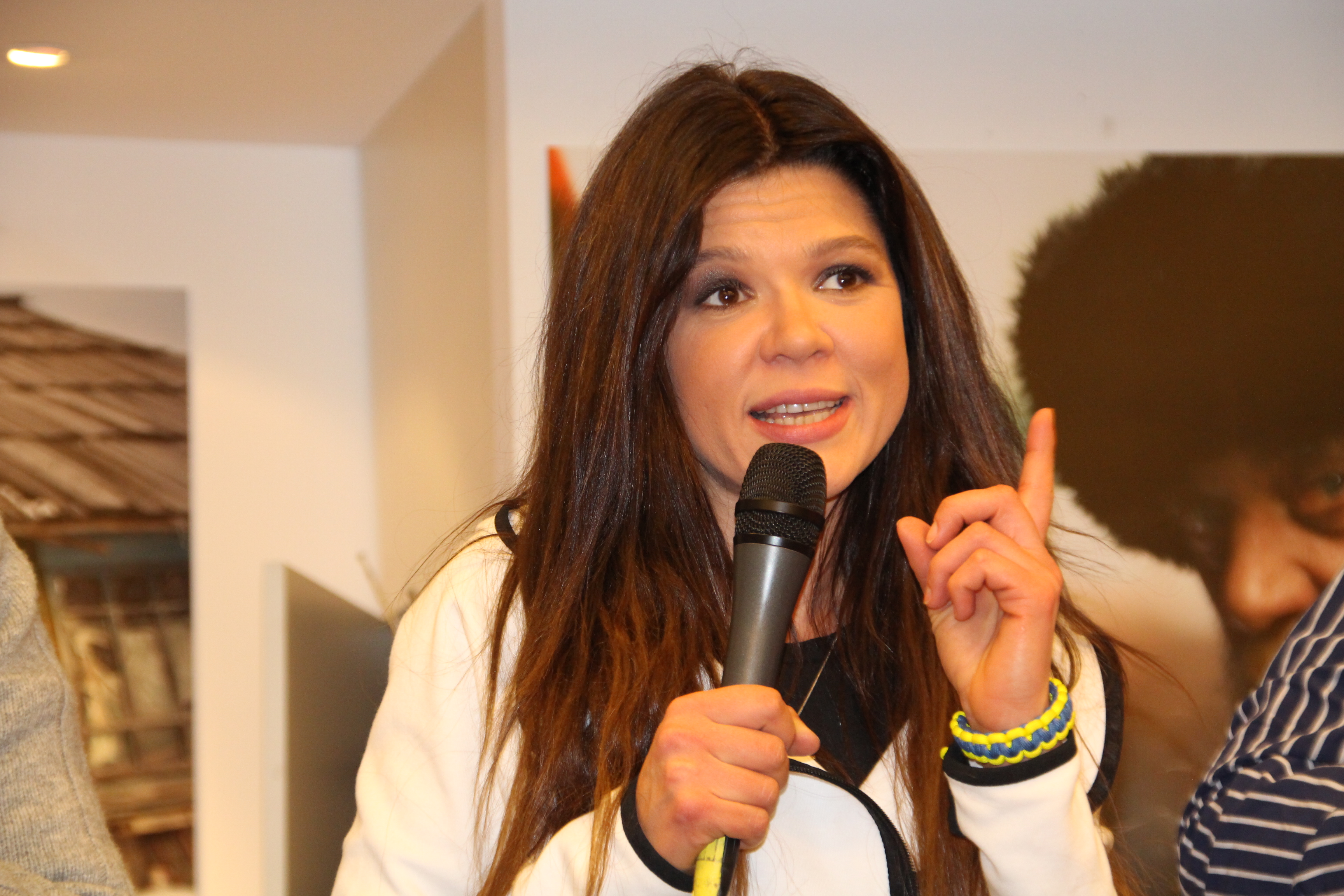 Ruslana at the panel discussion of the Lew Kopelew Forum, Cologne, Germany, 18th April 2015